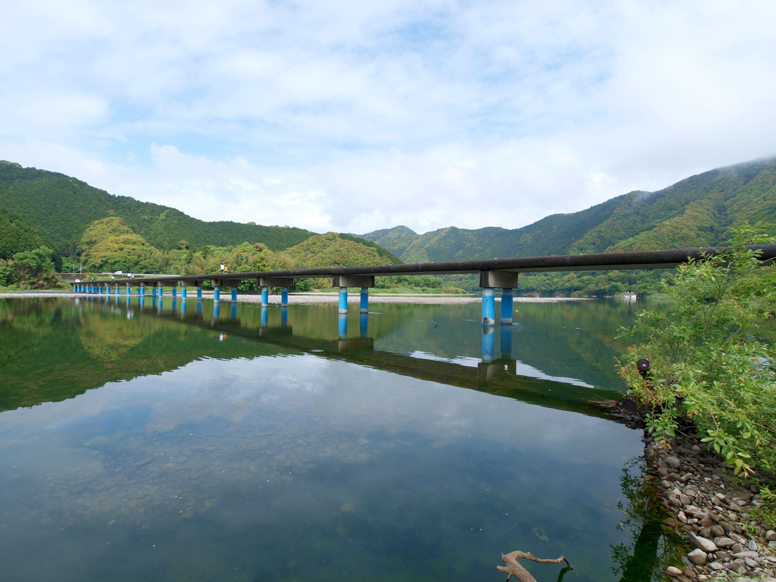 Sada-chinkabashi over Shimanto river, Shimanto-shi, Kochi-ken, Japan